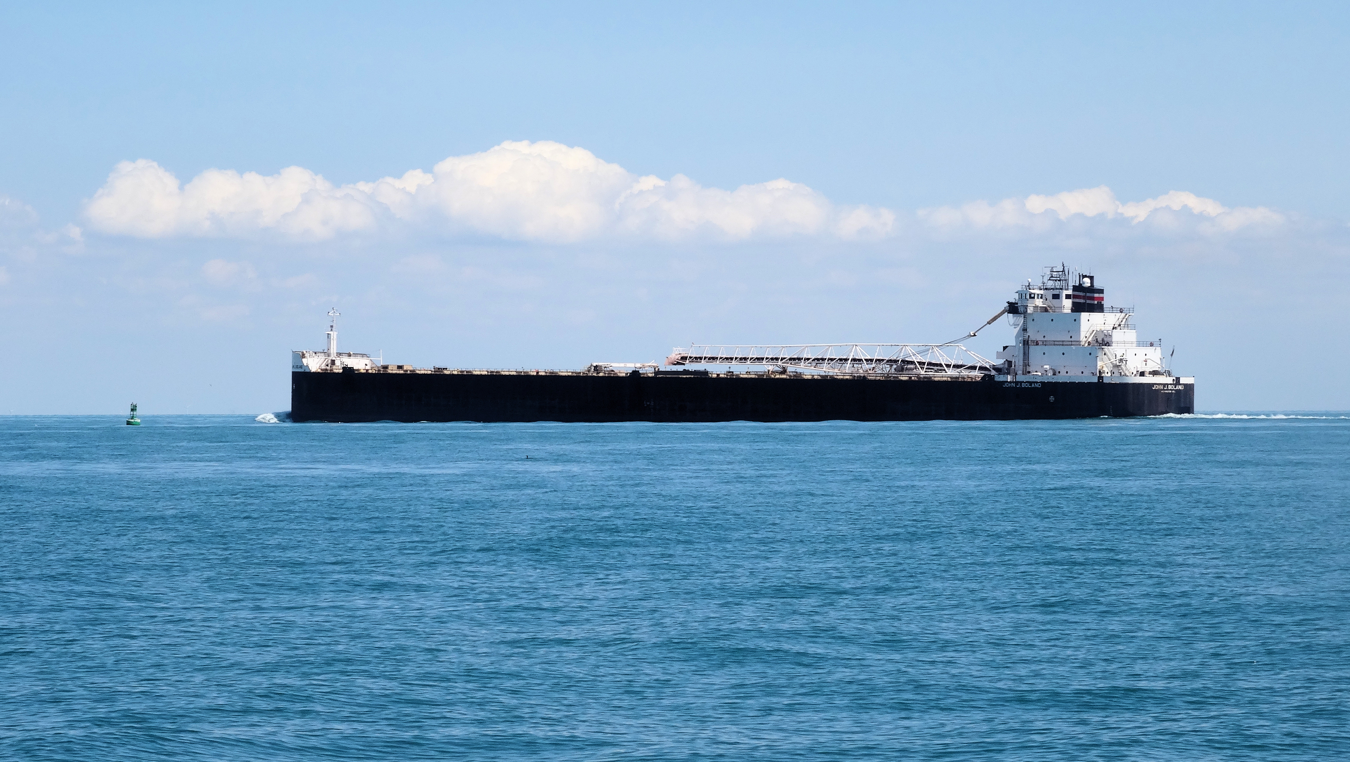 The John Boland in Lake St. Clair heading to the St. Clair River